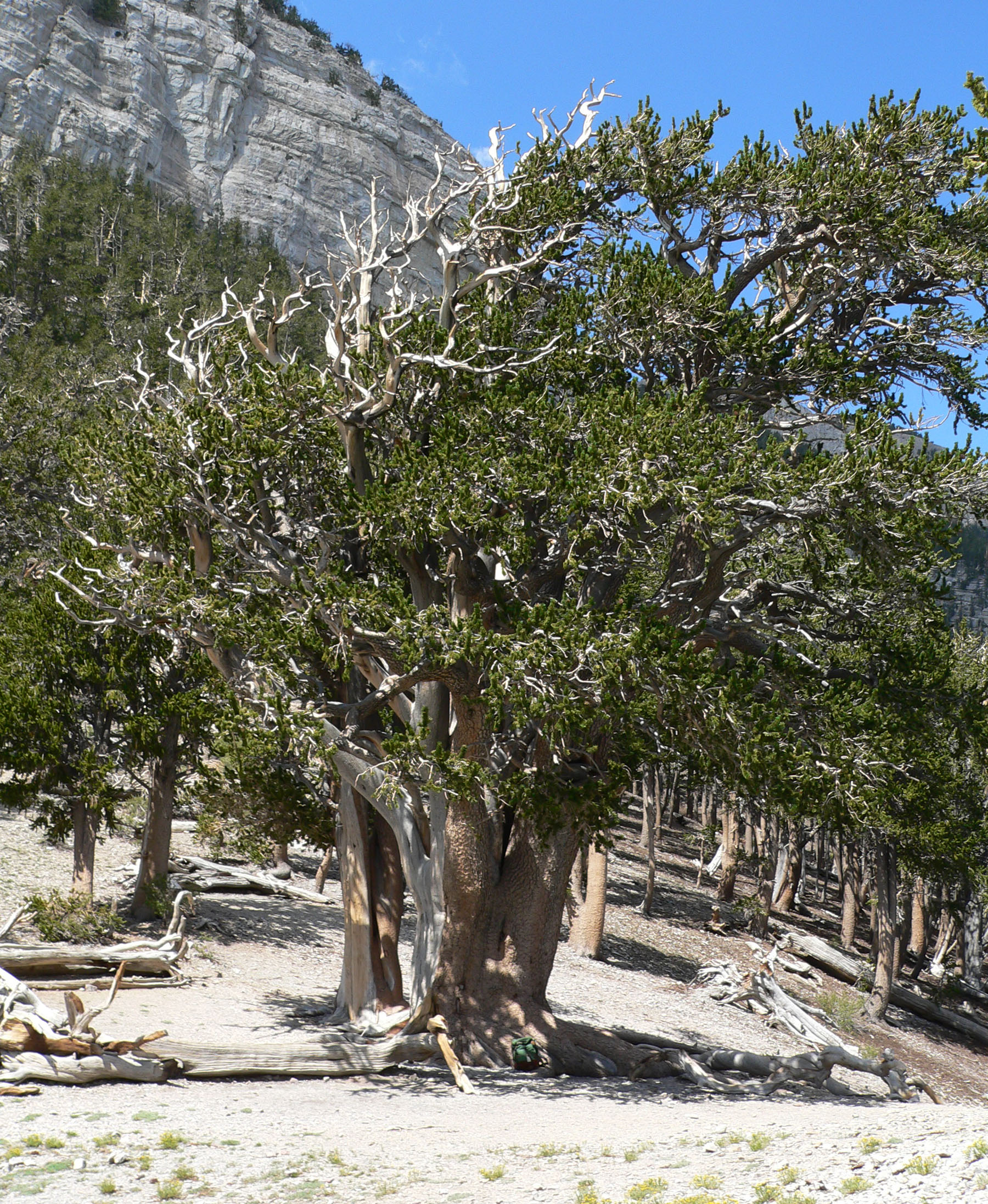 Large Pinus longaeva, known locally as the "Rain Tree" for ability to shelter many hikers from downpours, near the North Loop trail, Spring Mountains, southern Nevada (elev. about 3000 m)